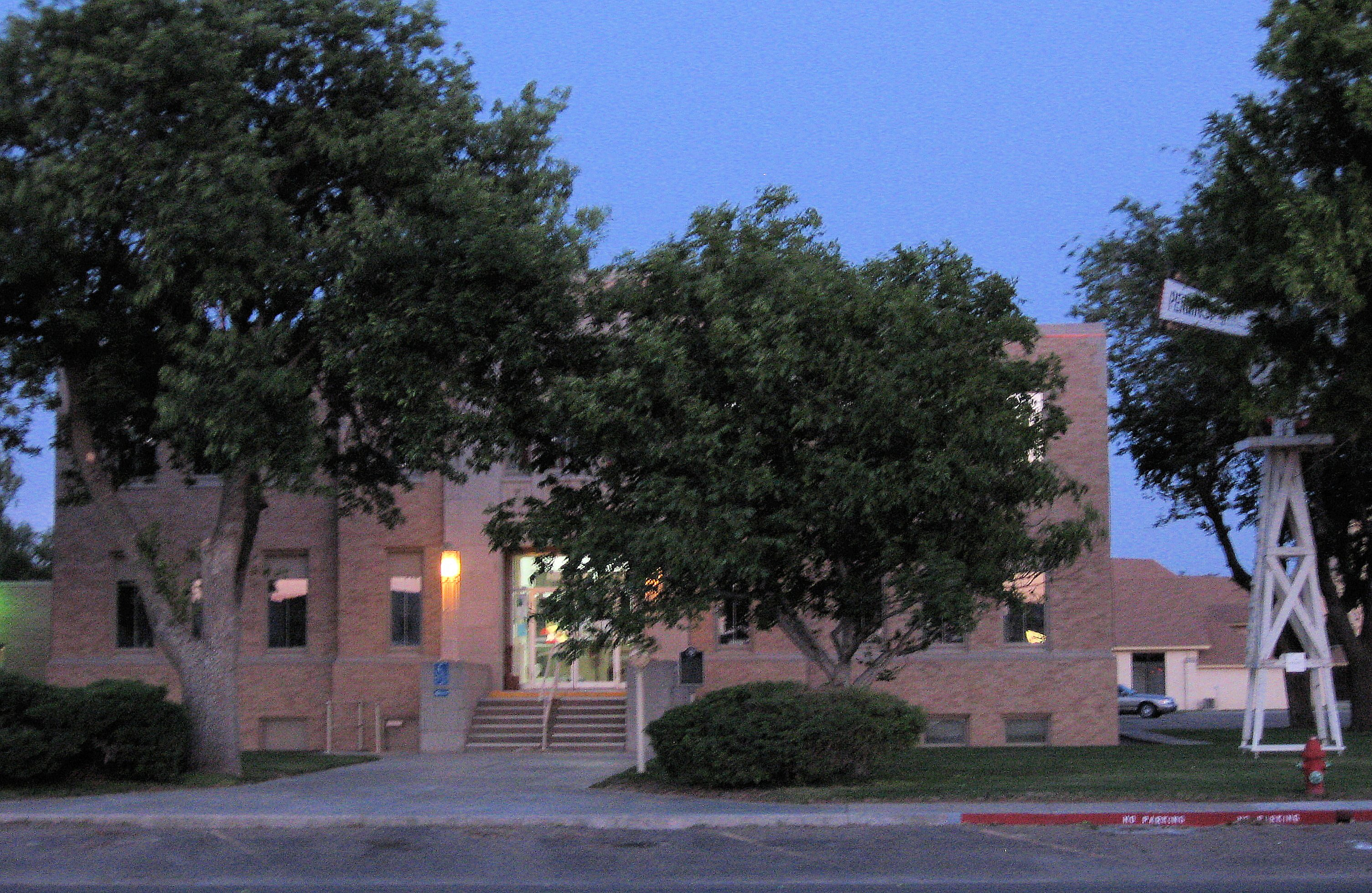 Hansford County, Texas Courthouse in Spearman, Texas, U.S.